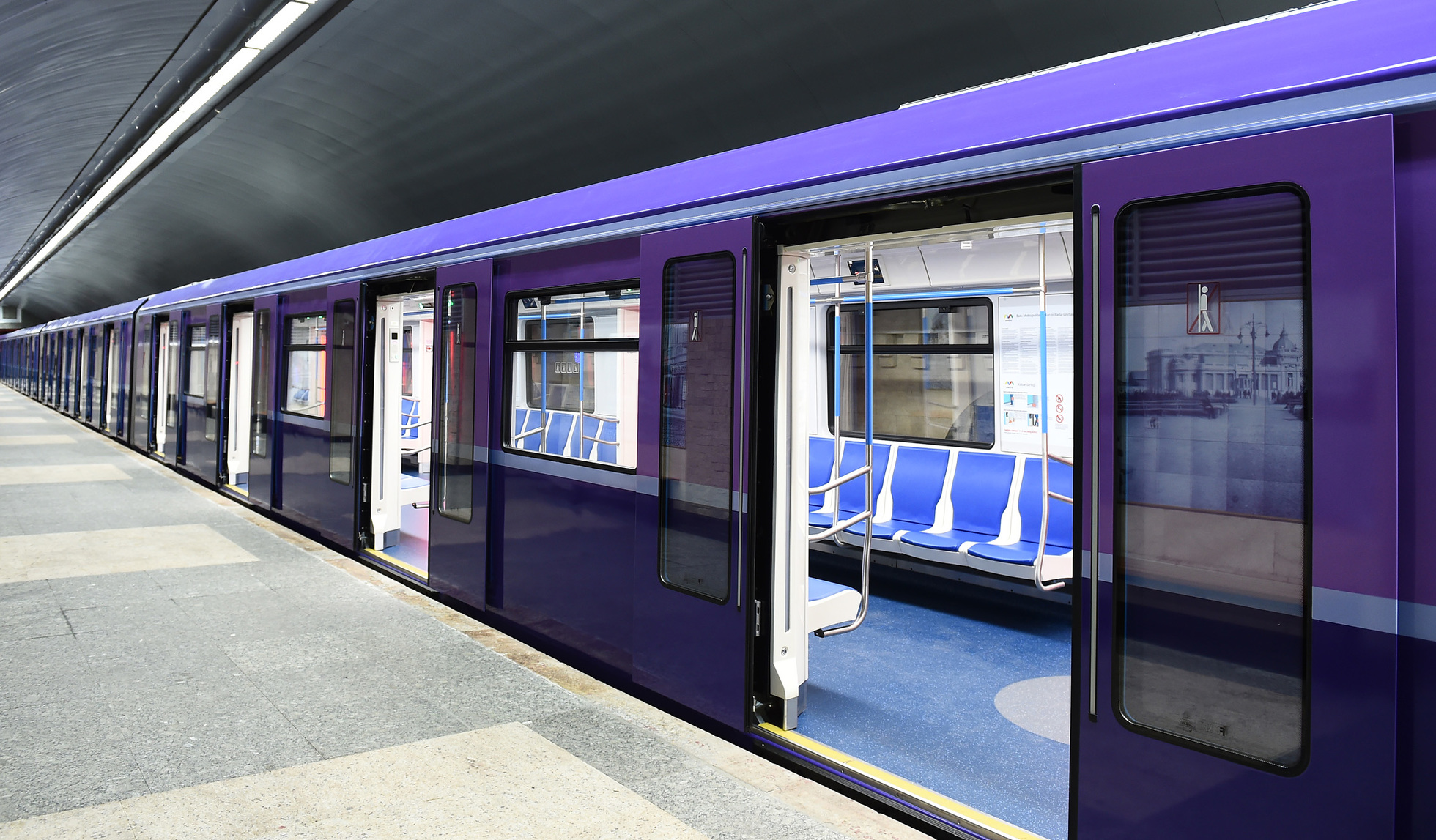 Subway electric train 81-765/766 «Moscow» № 0016—0020 at Icheri Sheher station of Baku Metro (view from side with open doors)